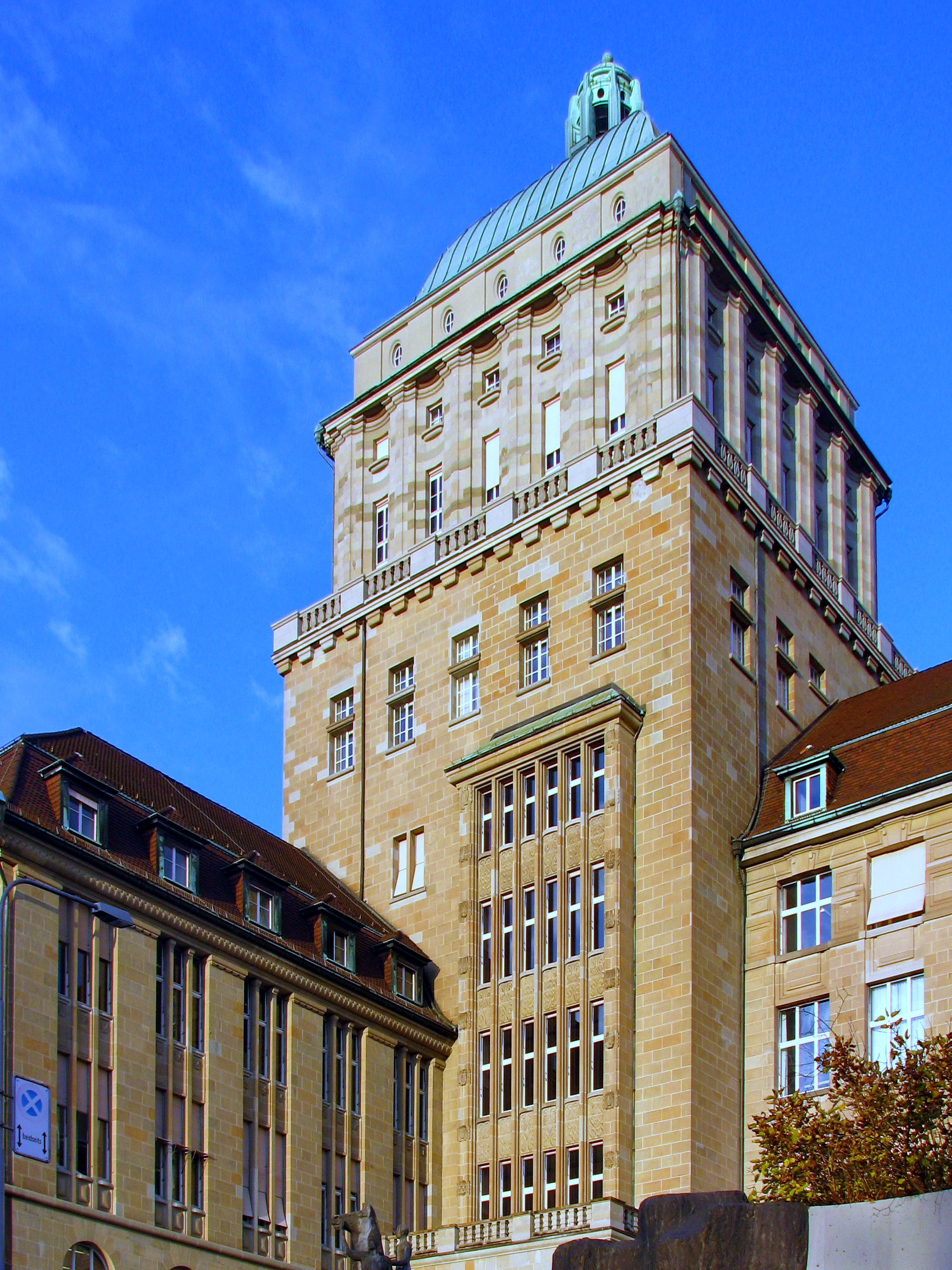 University of Zürich (Switzerland) main building as seen from the southwest